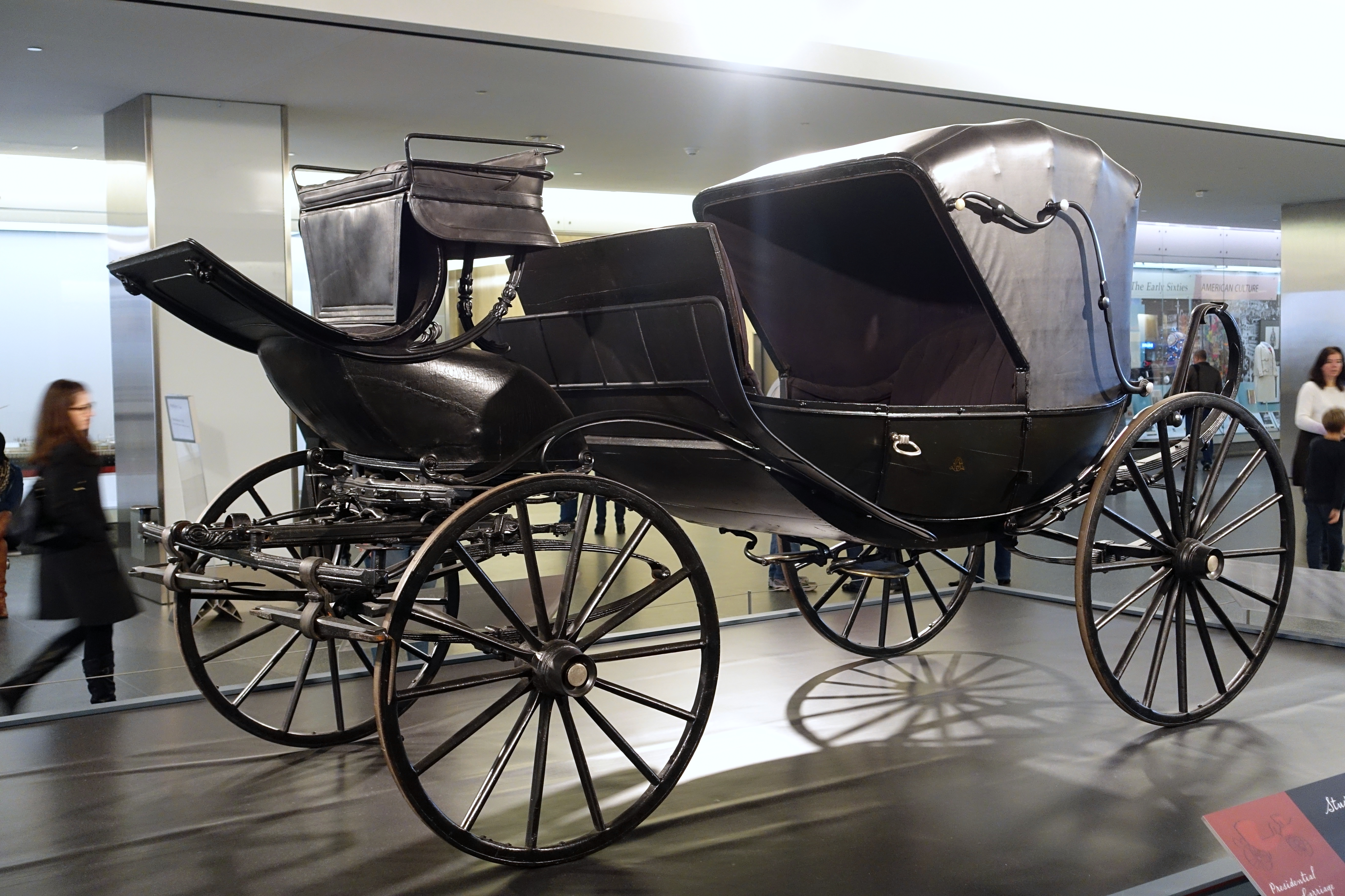 Exhibit in the National Museum of American History, Washington, DC, USA. Abraham Lincoln's barouche